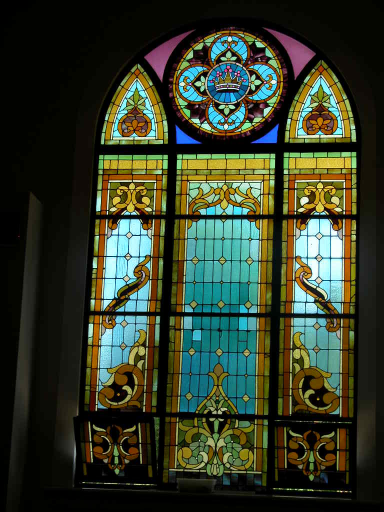 Stained glass window on north side of First Presbyterian Church of Hartford City, Indiana.